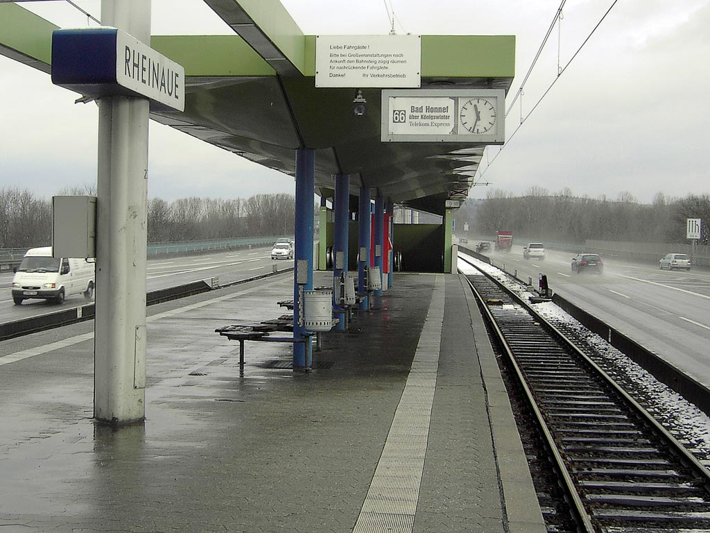 Urban railway stop Rheinaue in the centre strip of the federal motorway 562 in Bonn.